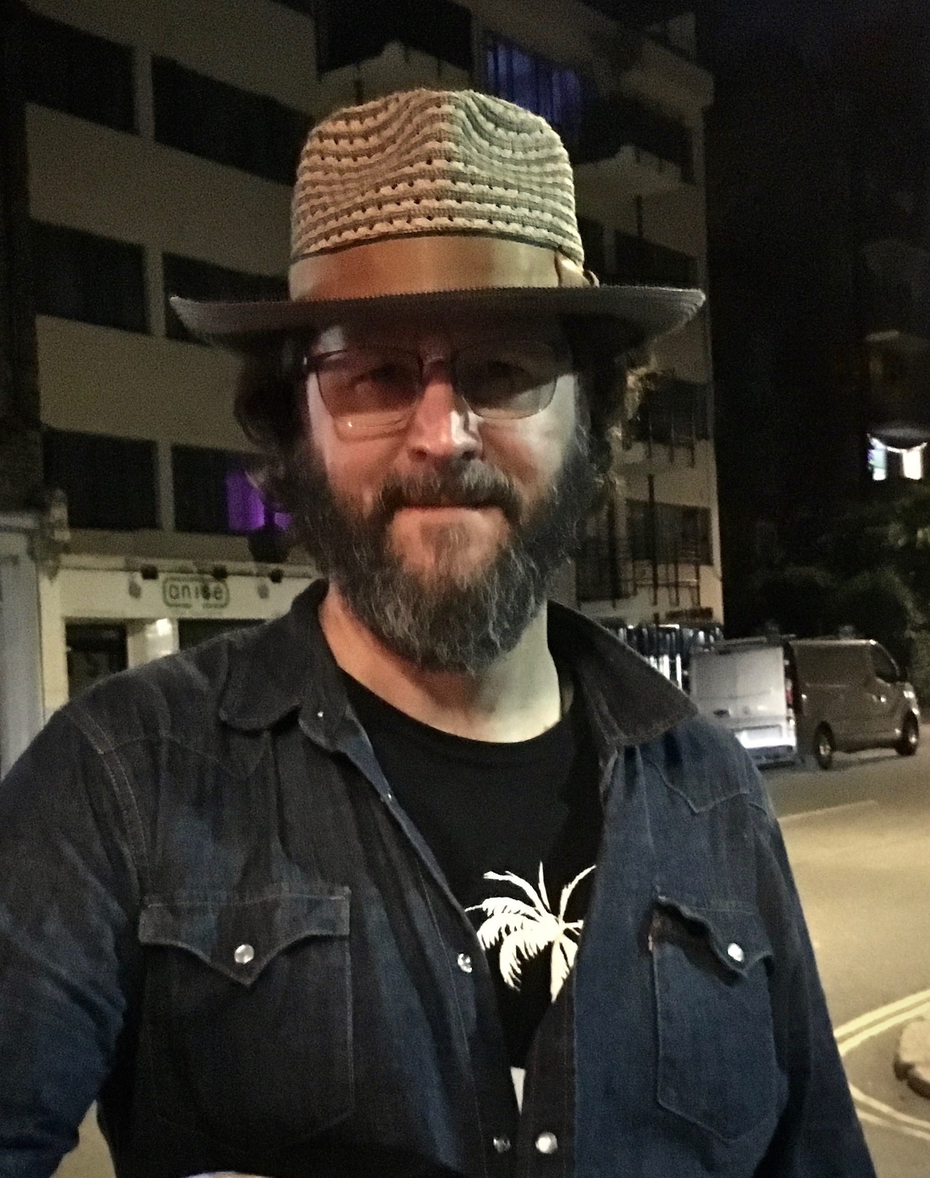 Kenny Roby portrait photo, taken in London.